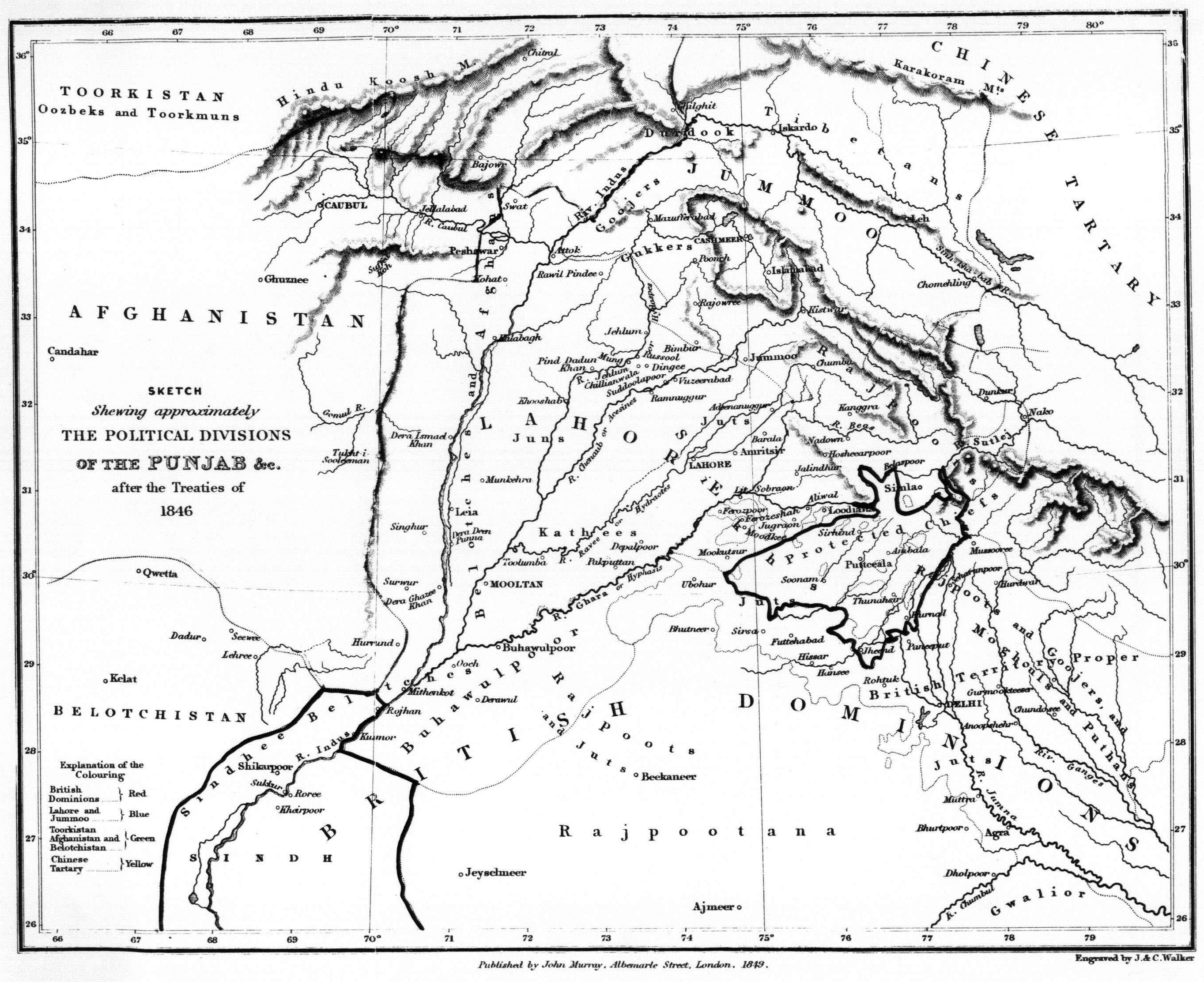 Map of the Punjab from: J.D. Cunningham, History of the Sikhs (London: John Murray, 1849).